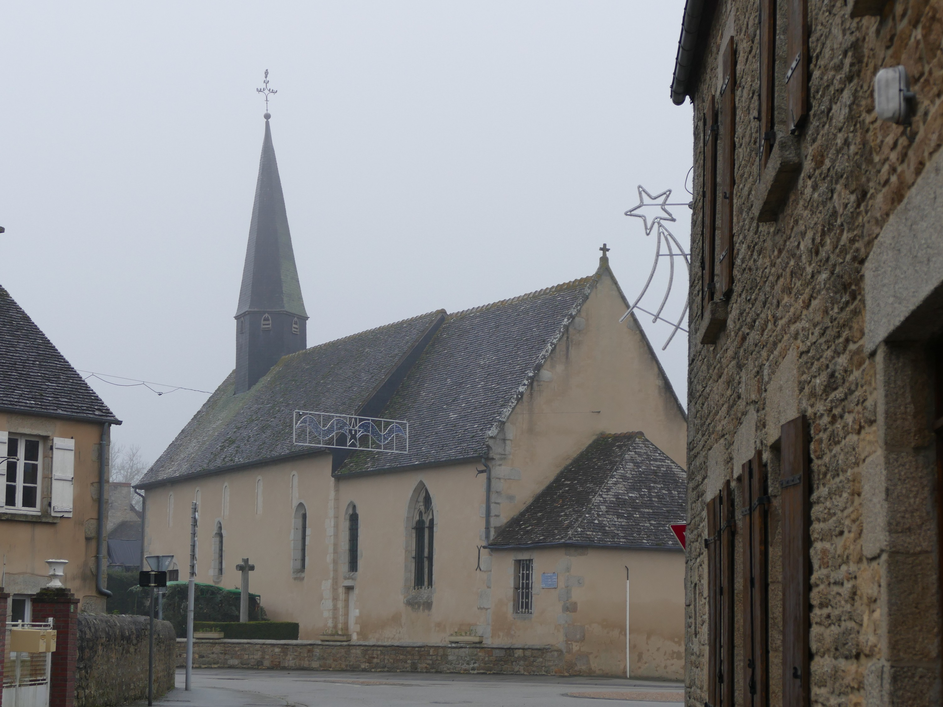 Saint-Rigomer's church in Colombiers (Orne, Normandie, France).